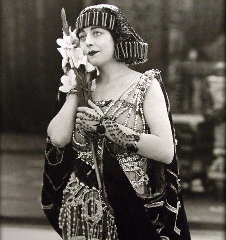 Seena Owen in Intolerance (1916)